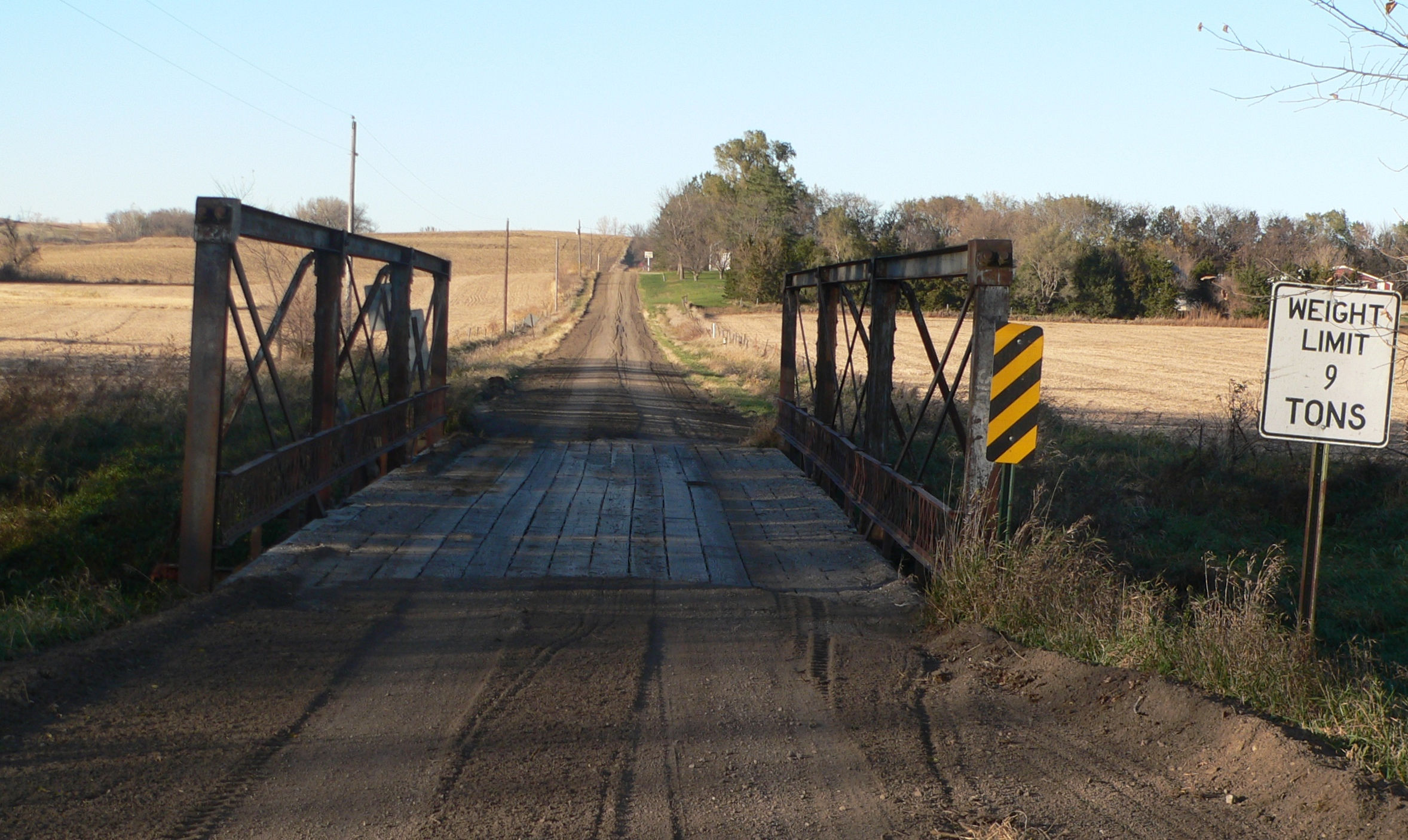 North Omaha Creek Bridge southwest of Winnebago in Thurston County, Nebraska; seen from the south. The bridge carries county road 26 across the creek north of county road G. Upstream is west (left). The bridge was built about 1905, and is listed in the National Register of Historic Places.